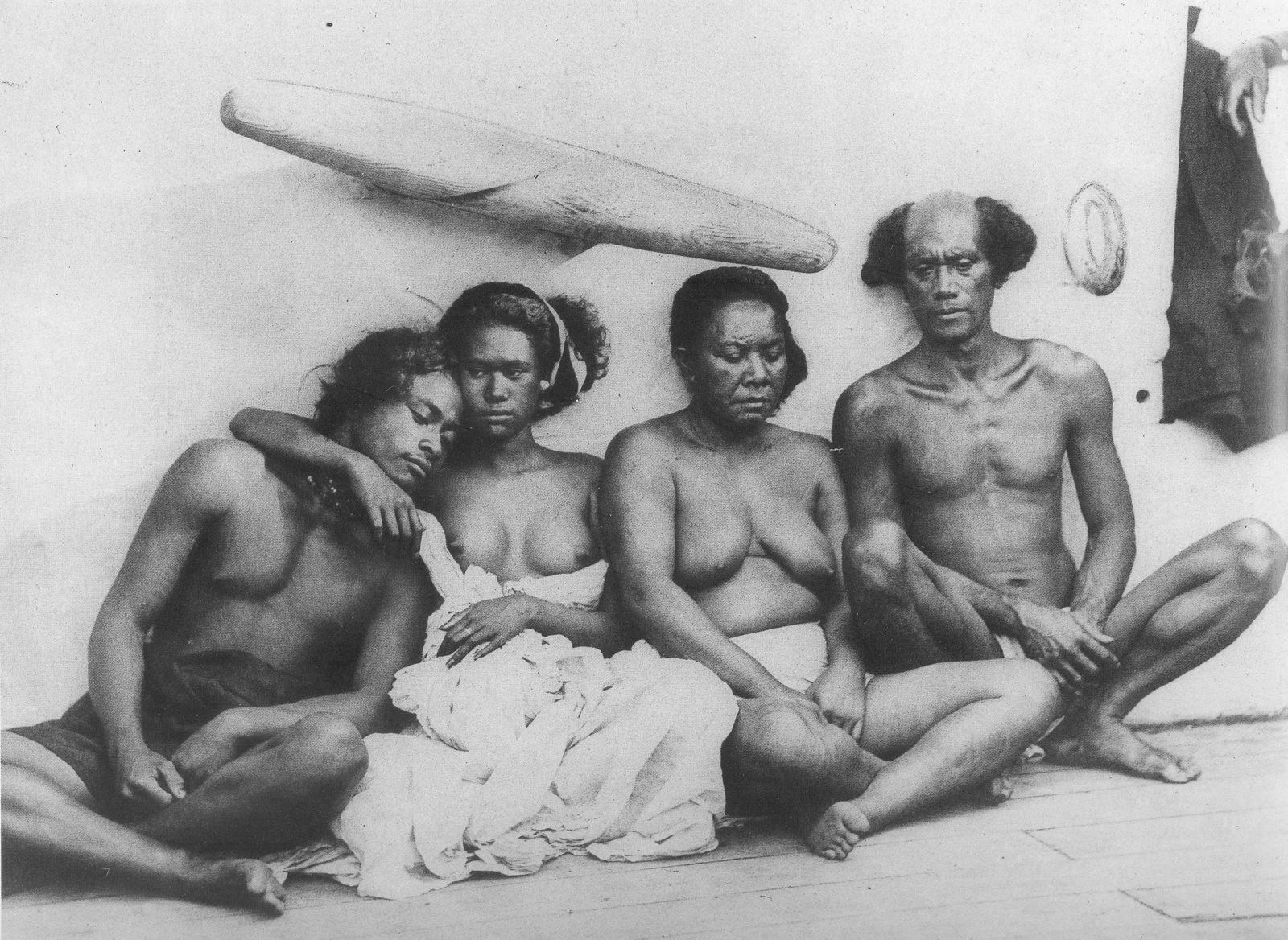 The King of Vaitahu (left probably, Iotete) and his family, aboard the l’Astrée. This photograph is of the royal family of Vaitahu, Tahuata, Marquesas Islands, 1870, by Paul-Émile Miot. It's currently located in the musée du quai Branly.[1]